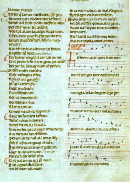 Arnaut Daniel's "Lo ferm voler". Handwriting in Milan Ambrosian Library.